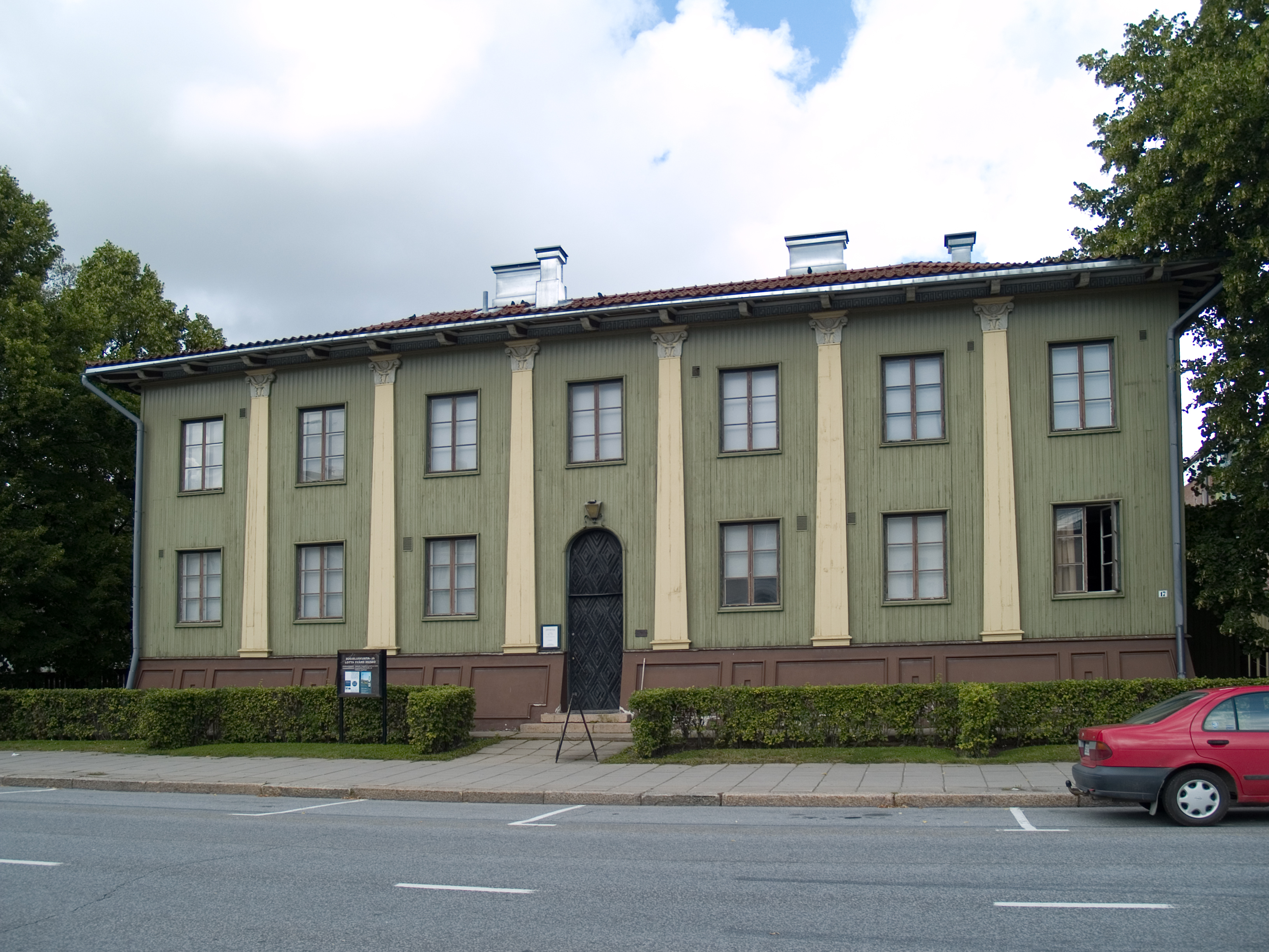 White Guard building by young Alvar Aalto, built in 1924–26, in Seinäjoki, Finland.